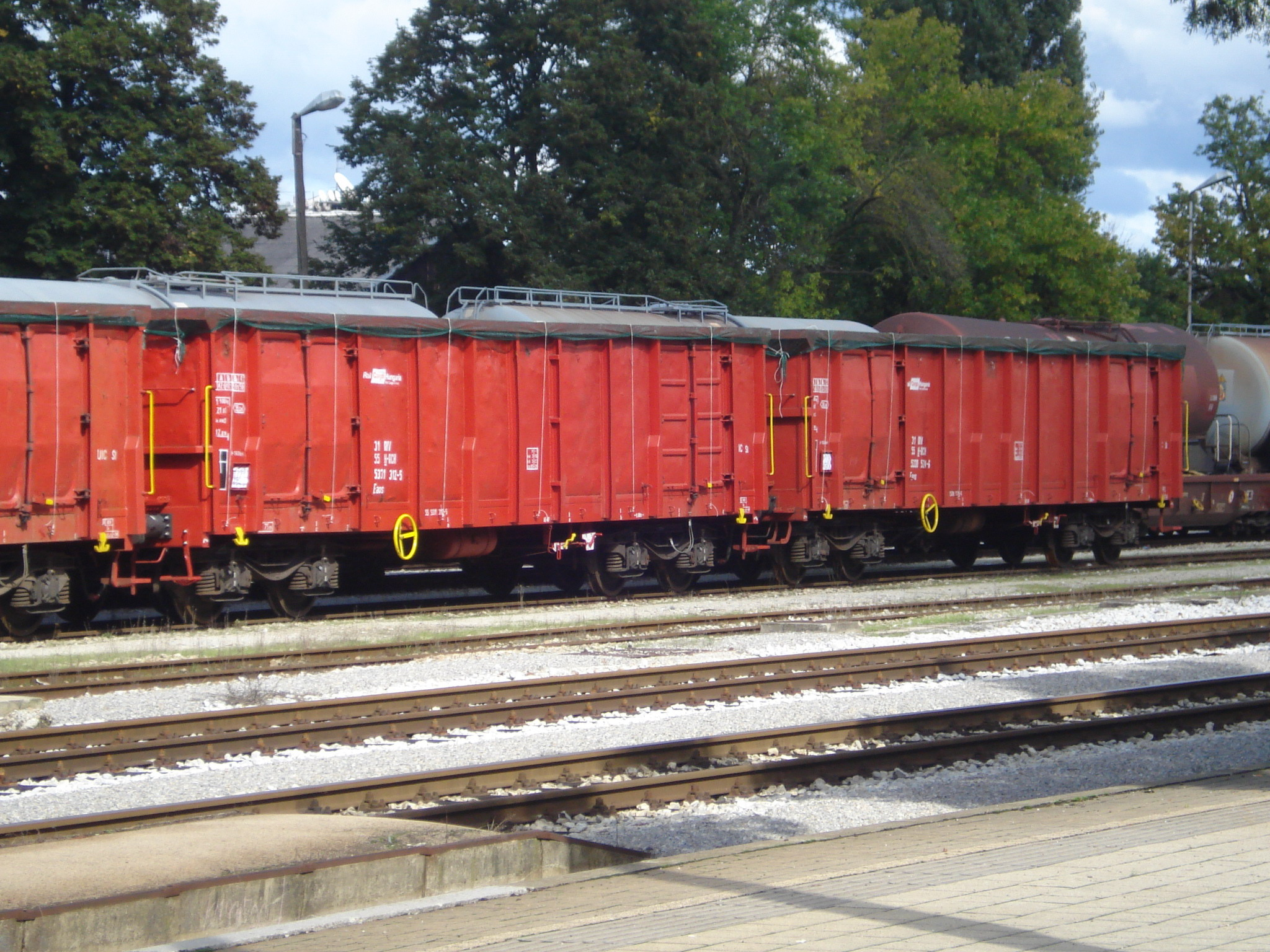 Čakovec railway station, Medjimurje County, northern Croatia - red wagonsHrvatski: Željeznički kolodvor Čakovec, Međimurska županija, sjeverna Hrvatska - crveni vagoni